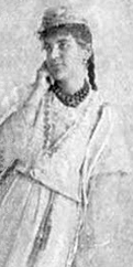 Women in the Lyceum